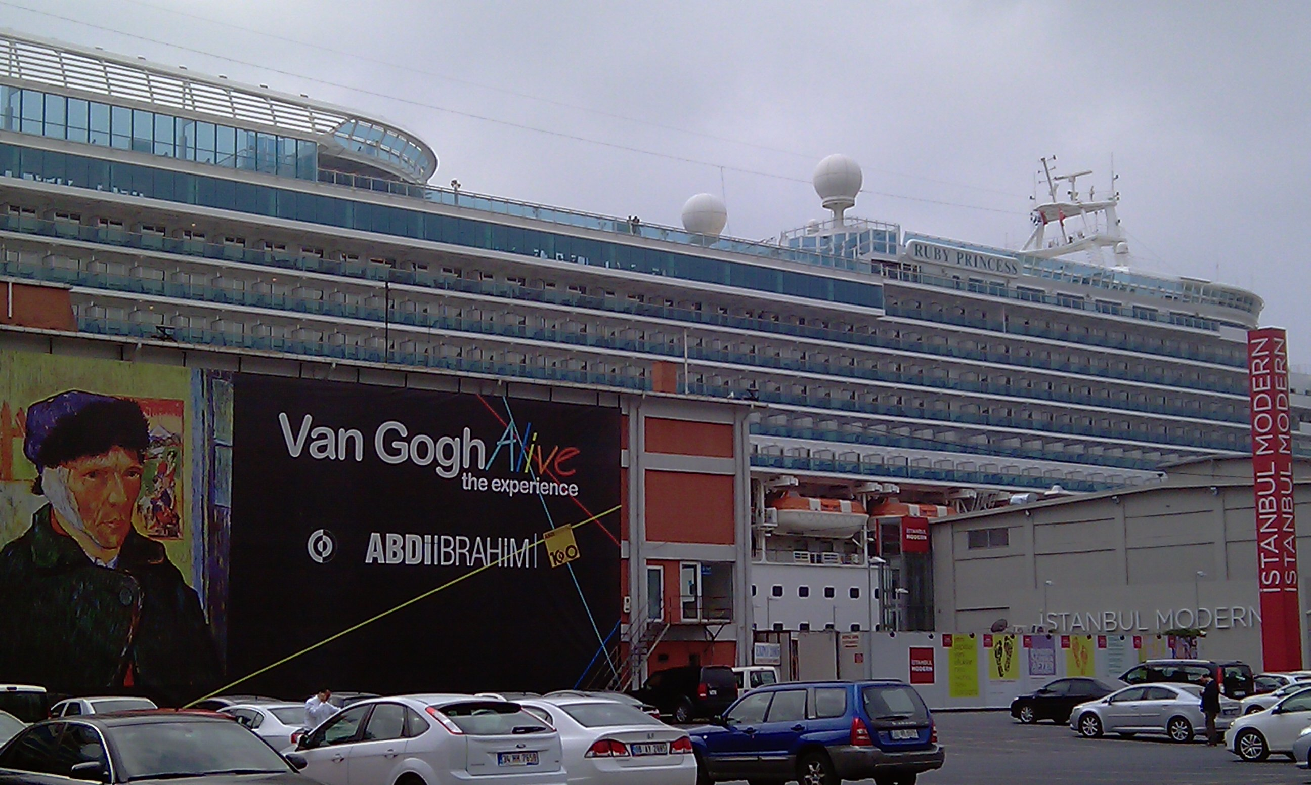 Istanbul Modern - Art Gallery in Karakoy, Istanbul, Turkey